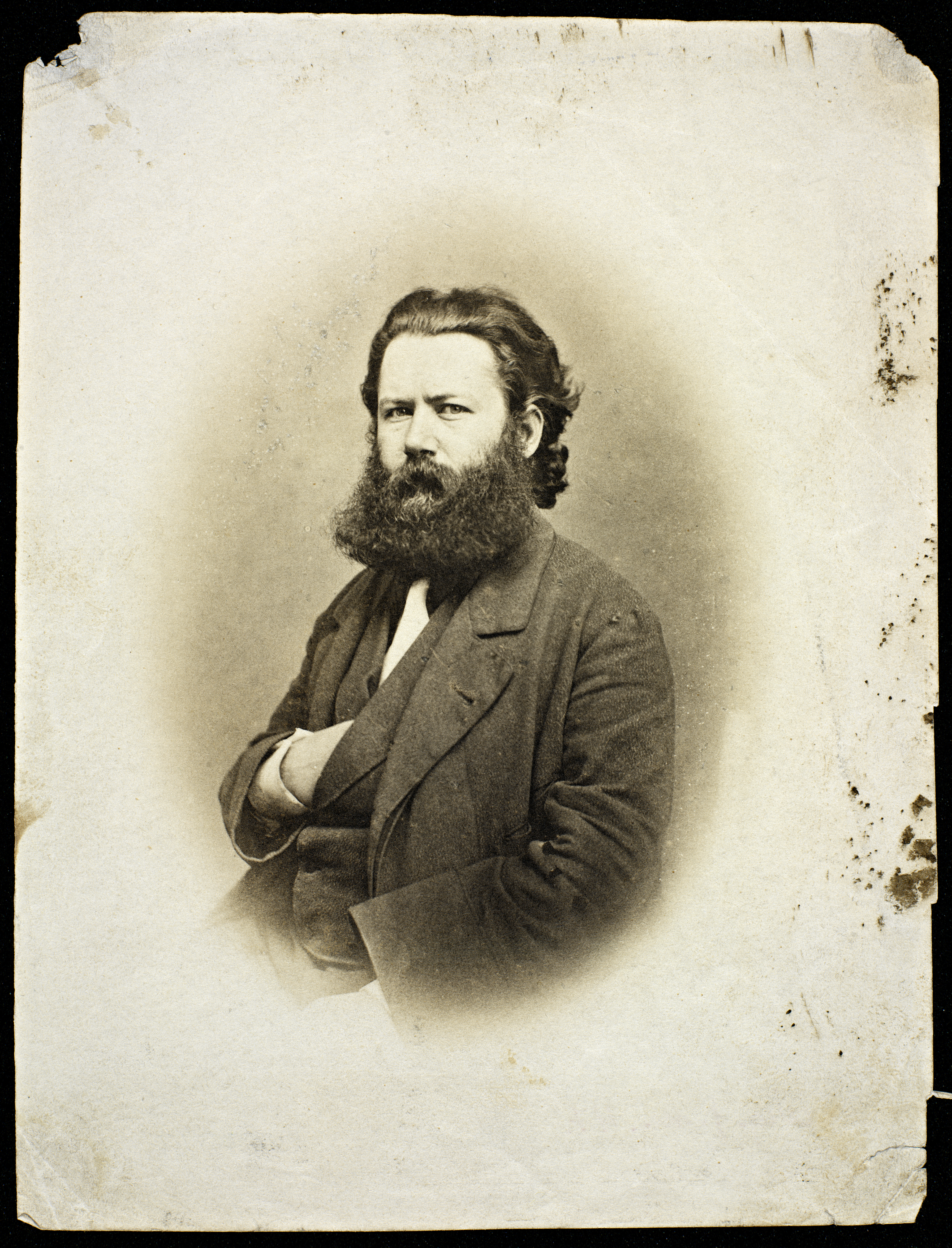 Tittel / Title: Portrett av Henrik Ibsen, 1863/64 Dato / Date: 1863/64 Fotograf / Photographer: Daniel Georg Nyblin (1826-1910) Eier / Owner Institution: Nasjonalbiblioteket / National Library of Norway Lenke / Link: Bildesignatur / Image Number: bldsa_ib1a1003